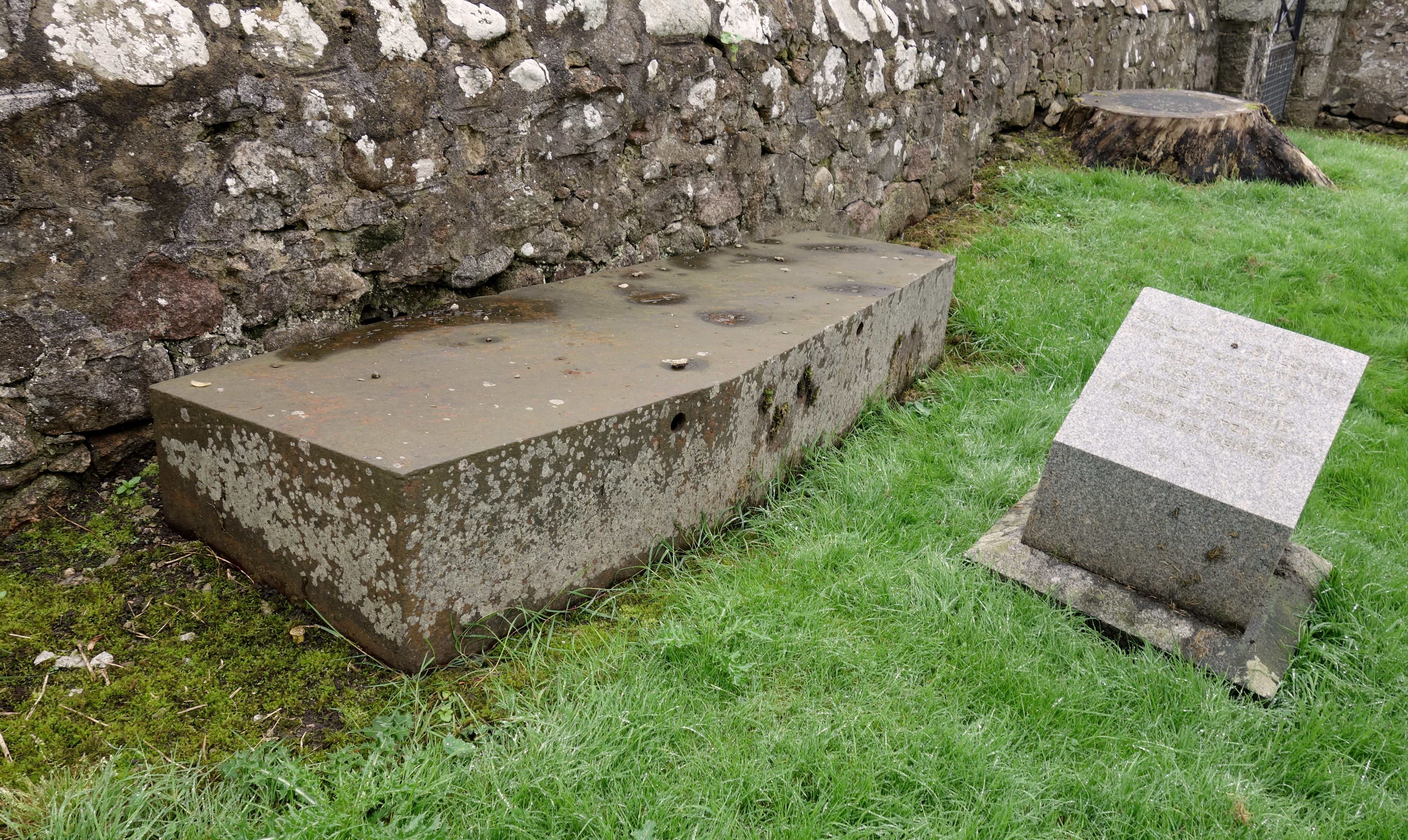 A mortsafe near Aberdeen